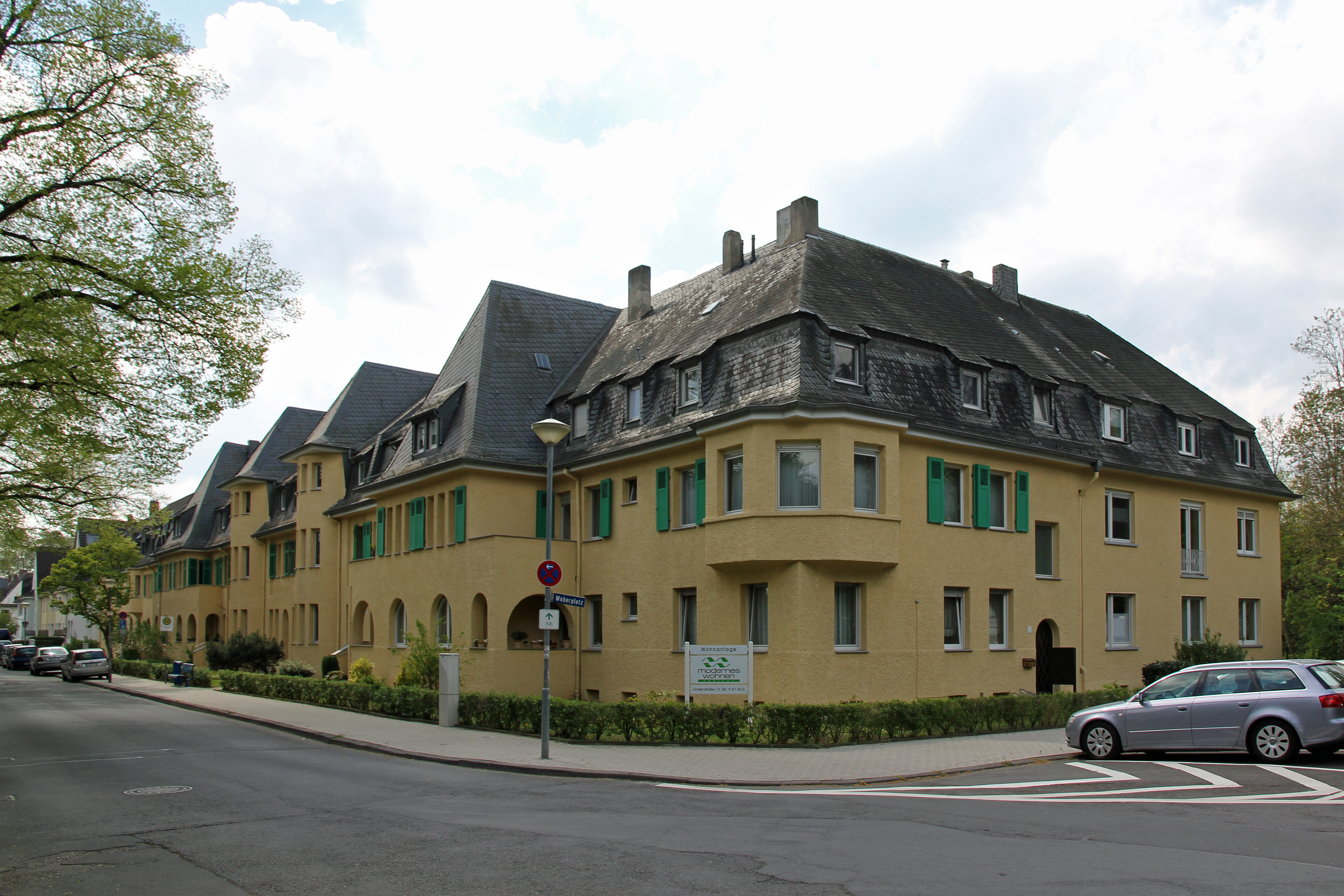 Beamtensiedlung Oberwerth in Koblenz